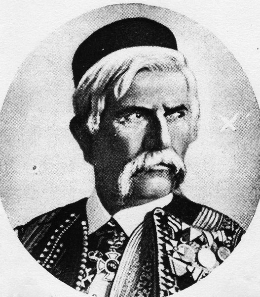 This is Marko Miljanov Popović, a poet and duke who is also a Montenegrin. Found at